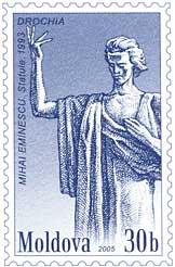 Stamp of Moldova